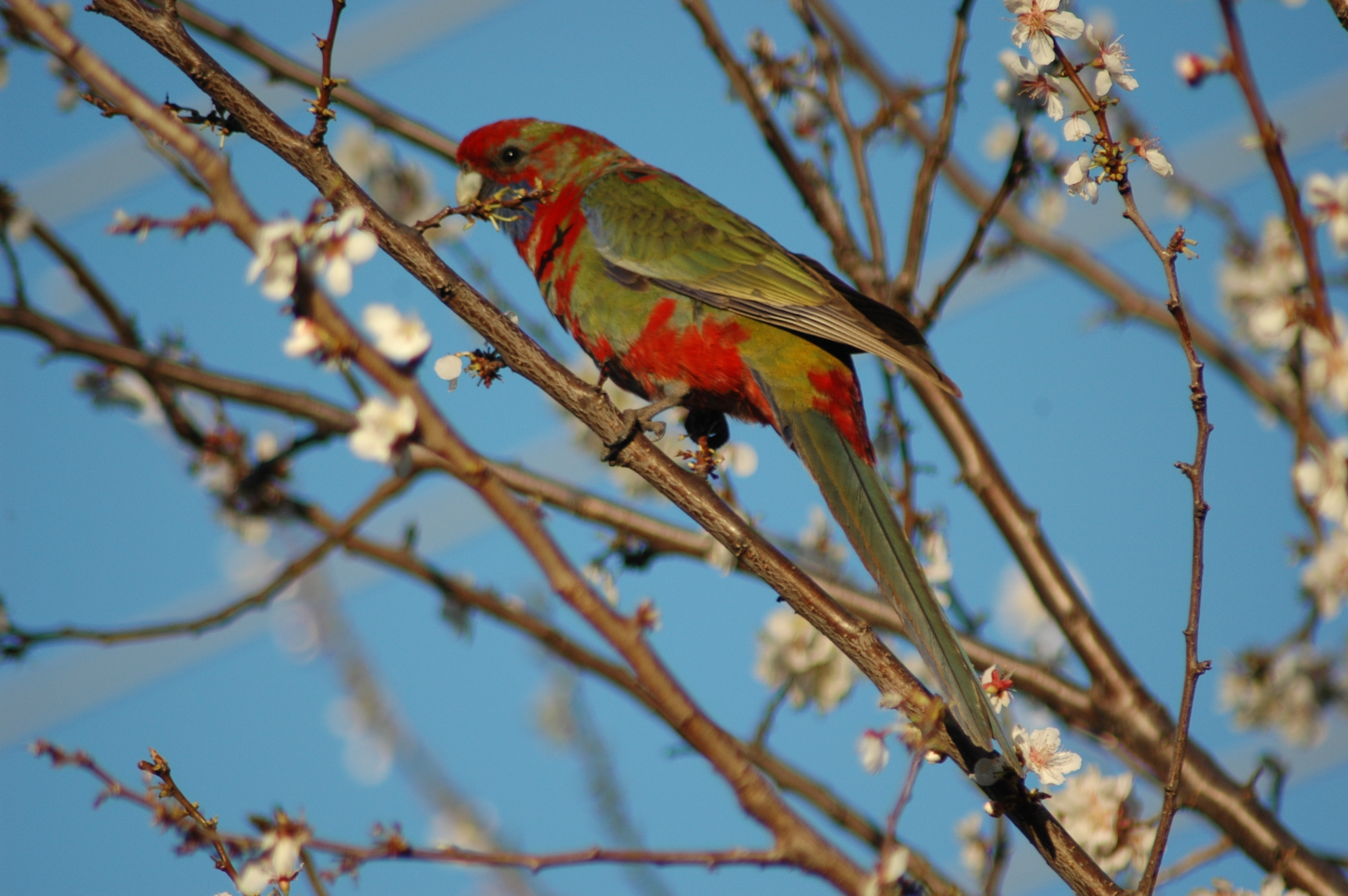 Crimson Rosella (Platycercus elegans). A juvenile, still with some green plumage, in Canberra, Australia.